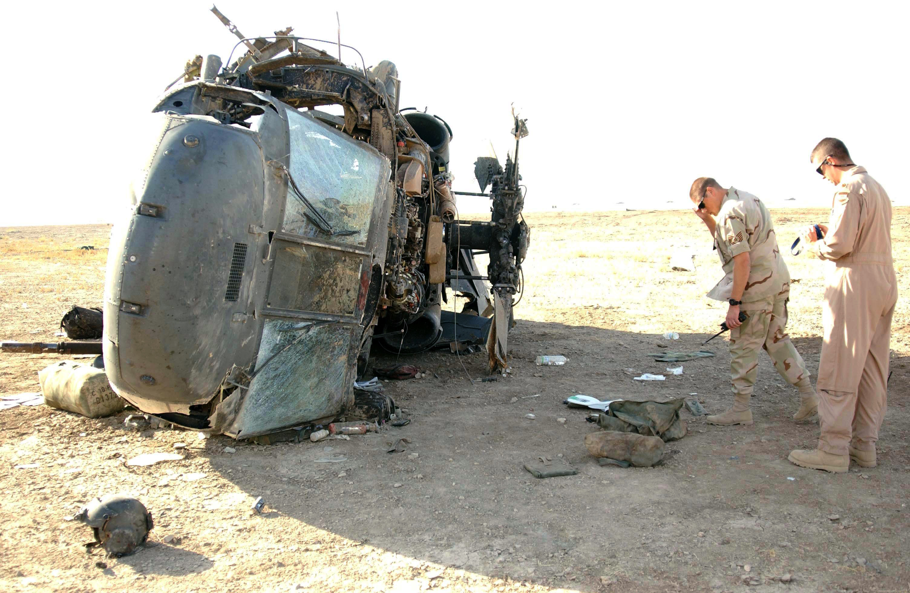 TALLIL AIR BASE, Iraq -- Local safety officials inspect the wreckage of a Sept. 21 Army UH-60 Blackhawk crash here. All four Soldiers on board were rescued from the helicopter by people of the 407th Air Expeditionary Group and 407th Expeditionary Medical Squadron.